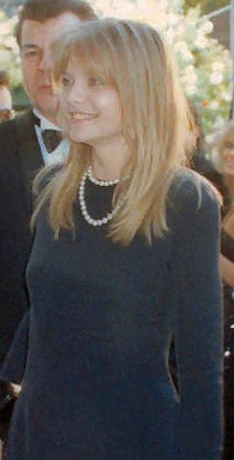 Michelle Pfeiffer at the 62nd Annual Academy Awards -cropped from original source